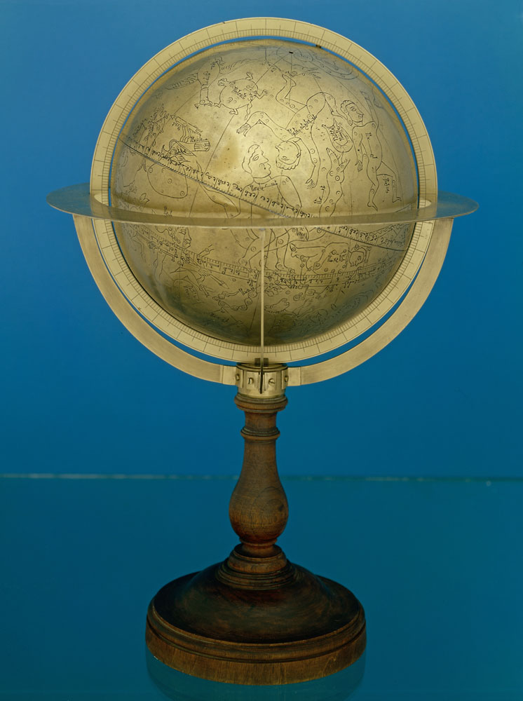 AuthorIbrâhim 'Ibn Saîd as SahlìDescription